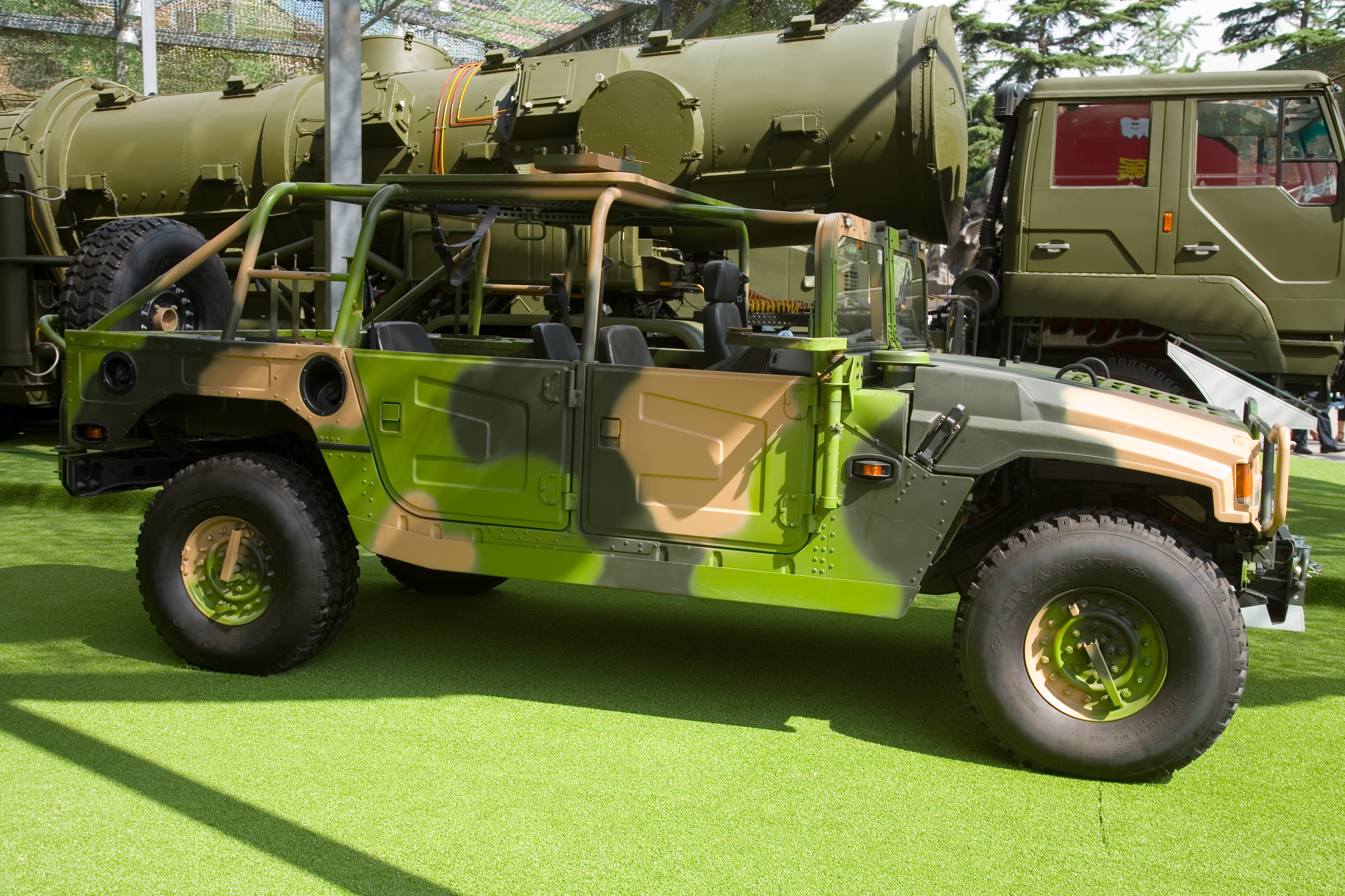 A Eastwind EQ2050 vehicle at the Beijing military museum during the "Our troops towards the sky" exhibition.